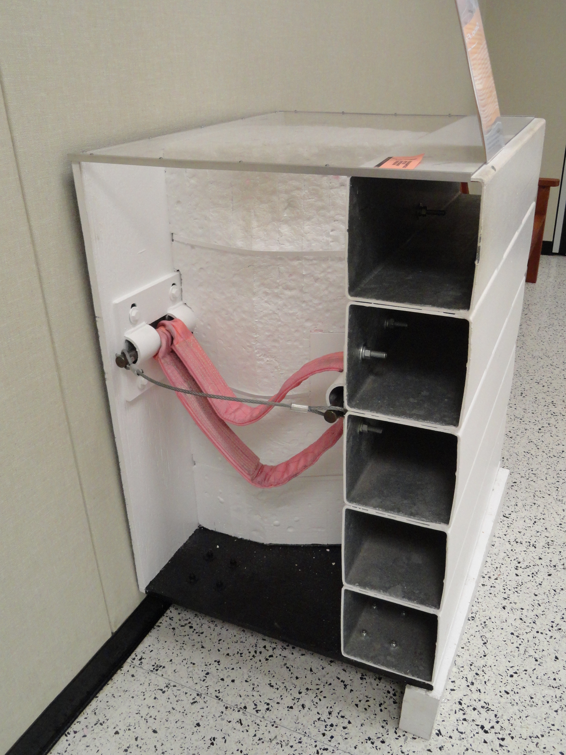 Cutaway of a Steel and Foam Energy Reduction (SAFER) barrier at the Indianapolis Motor Speedway Museum